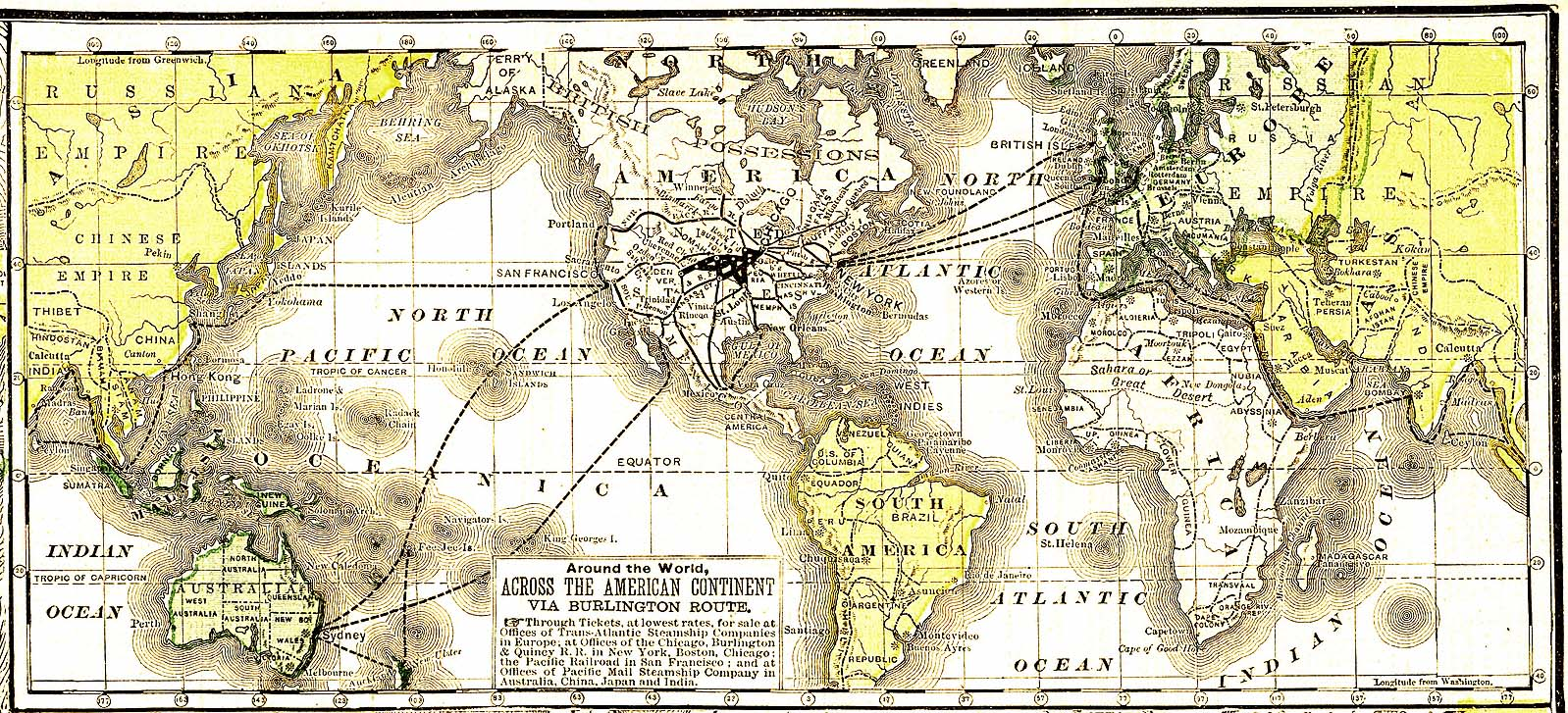 A map of world connections through the Burlington Missouri River Railroad Company. Originally published in 1882.